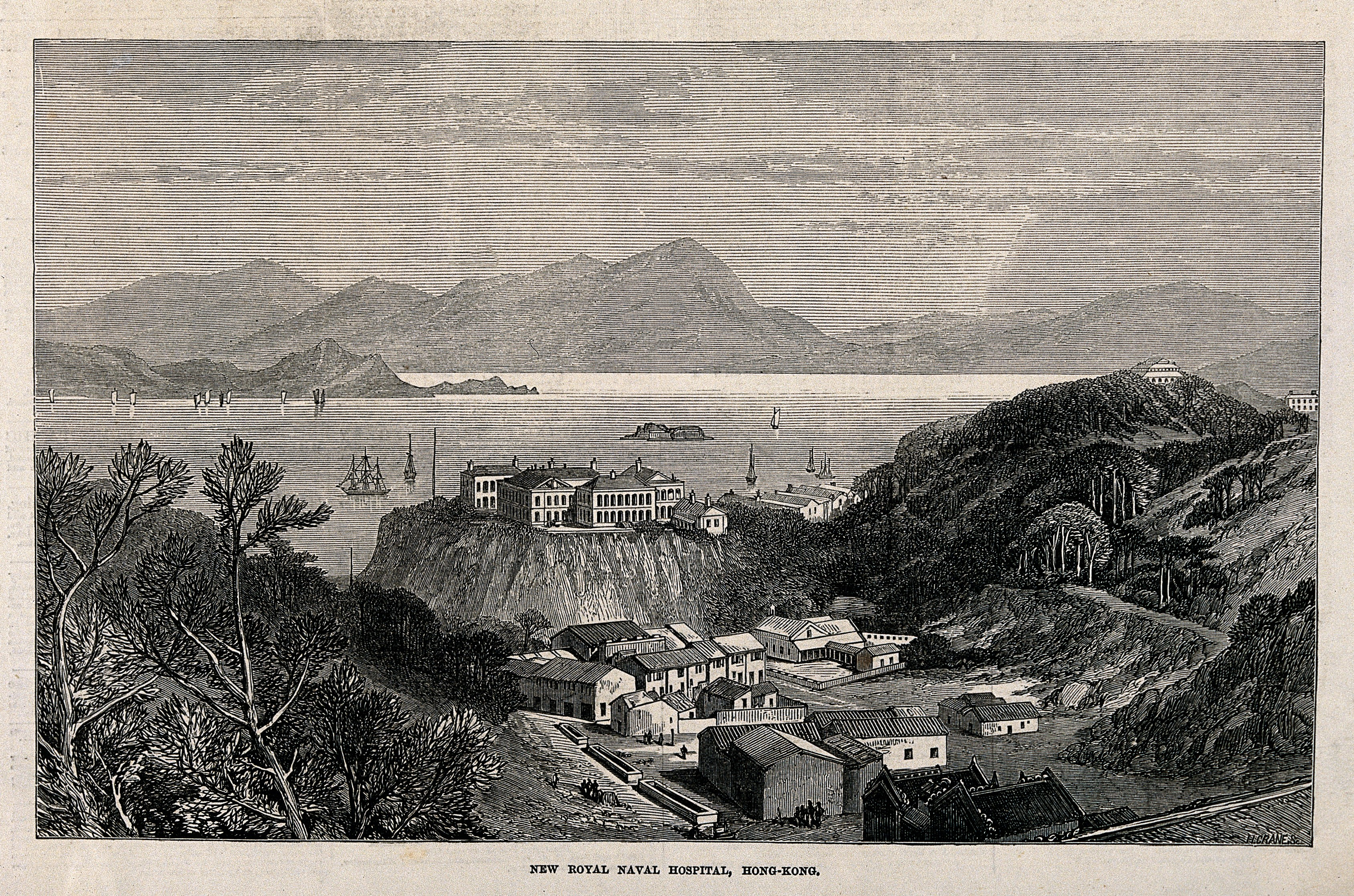 Royal Naval Hospital, Hong Kong: bird's eye view of the hospital and harbour. Wood engraving by H. Crane. Iconographic Collections Keywords: H. Crane